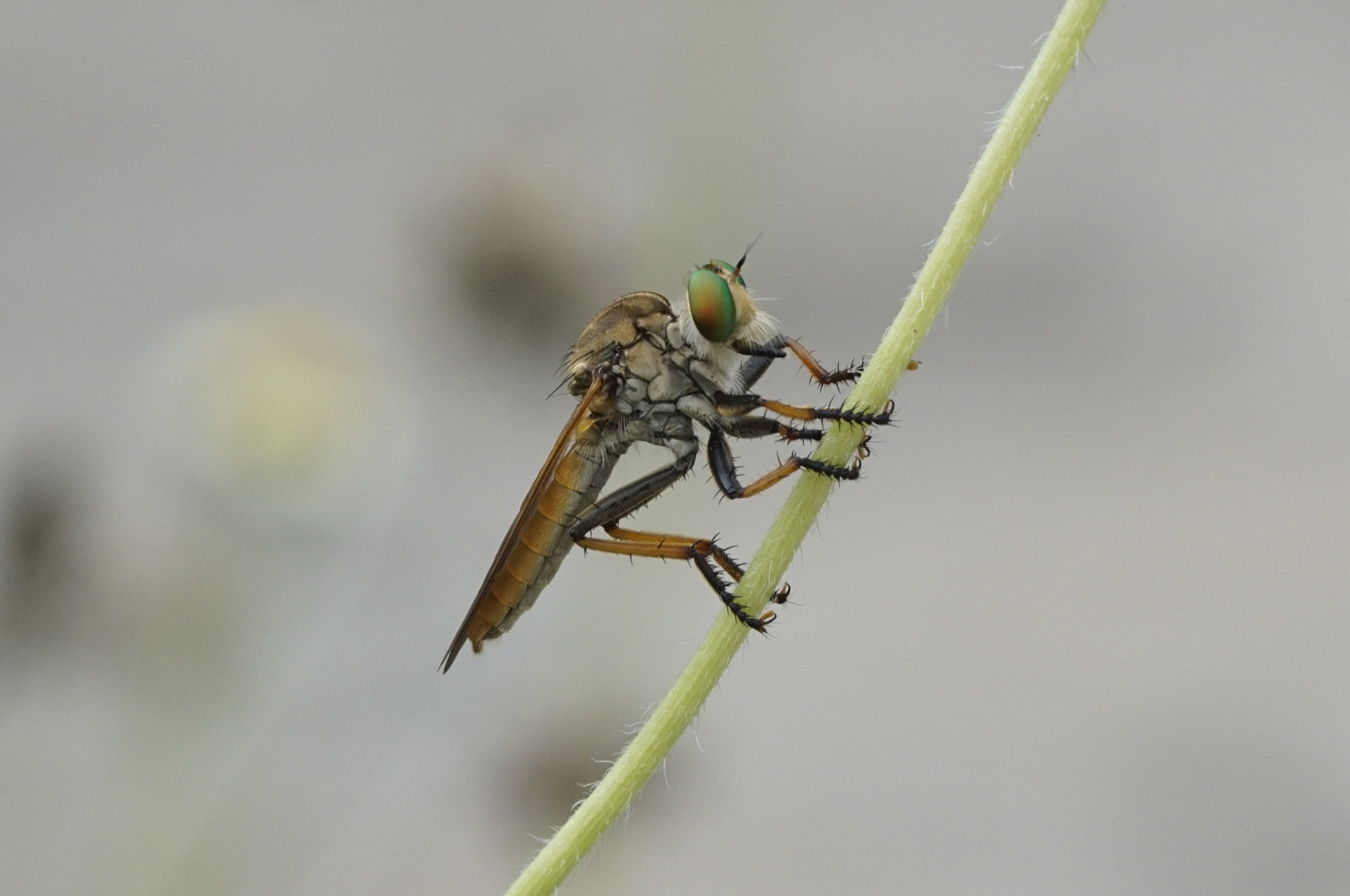 Michotamia,Asilidae